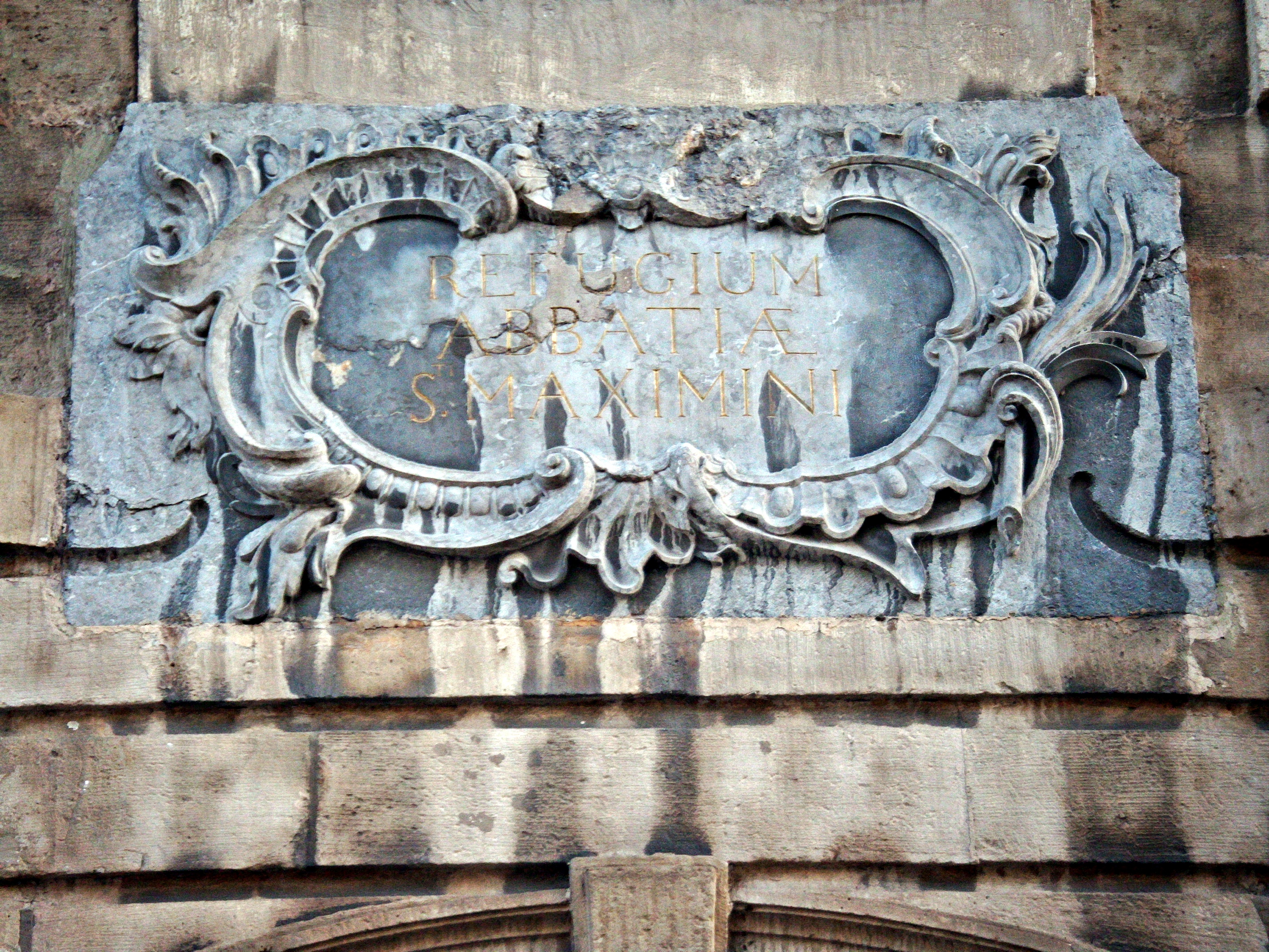 Luxemburg Refugium St. Maximin, Gedenkstein